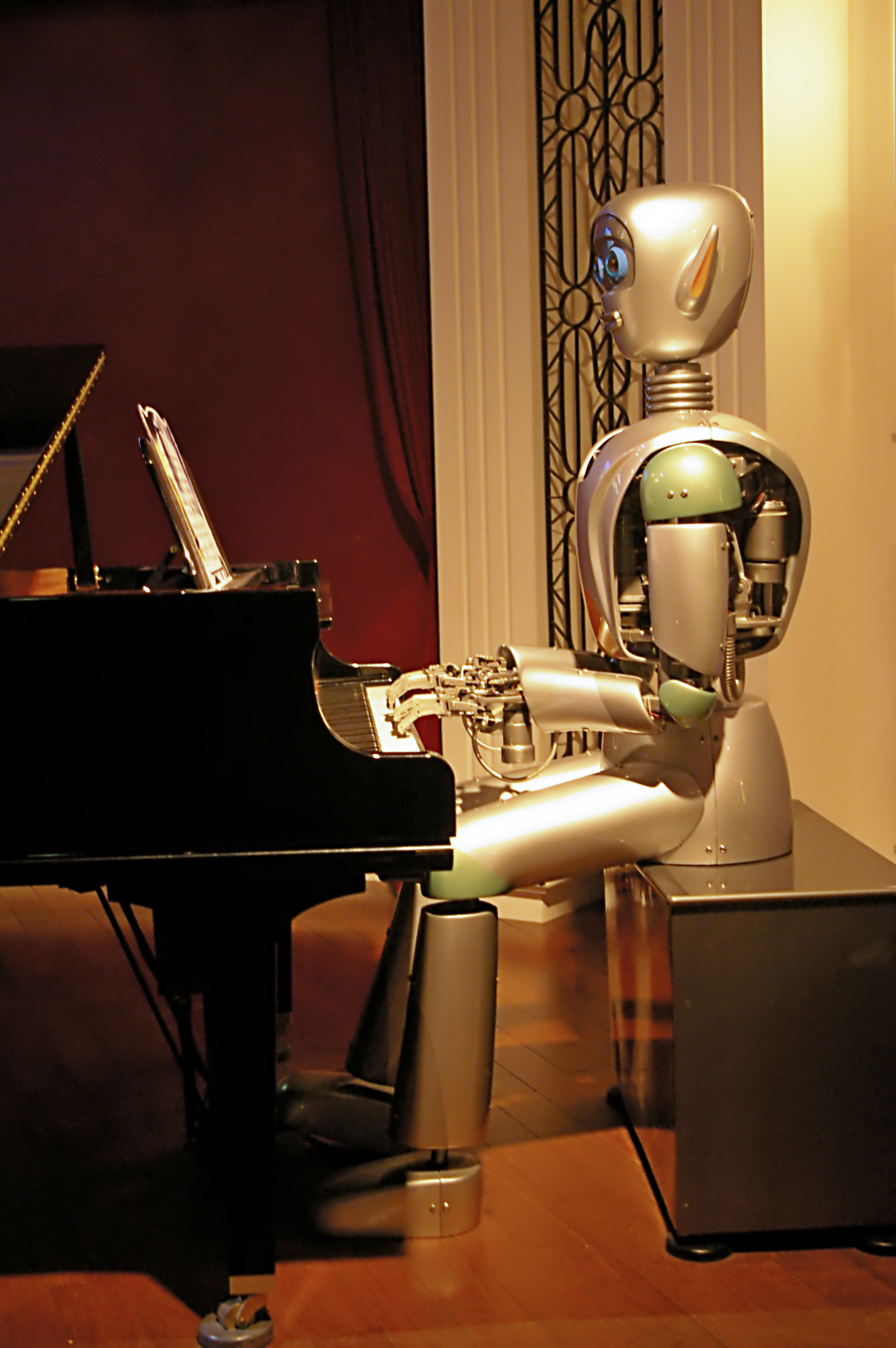 Robot playing piano in Shanghai Science and Technology Museum